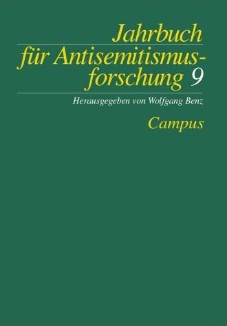 Book cover of the "Jahrbuch für Antisemitismusforschung" (Campus-Verlag, 2000)